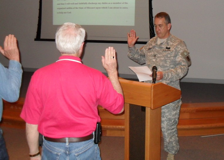 Maj. Gen. Stephen Danner, adjutant general of the Missouri National Guard, administers an oath to the initial members of the Missouri Reserve Military Force at the Ike Skelton Training Site. More than 50 Missouri National Guard retirees recently attended the first muster of the reserve force.